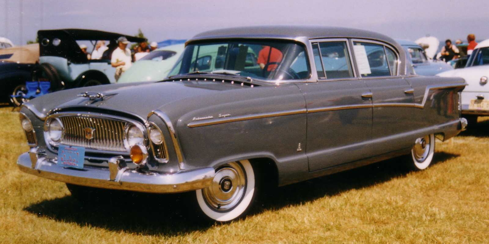 1956 Nash Ambassador Super four-door Sedan, by American Motors Corporation (AMC)